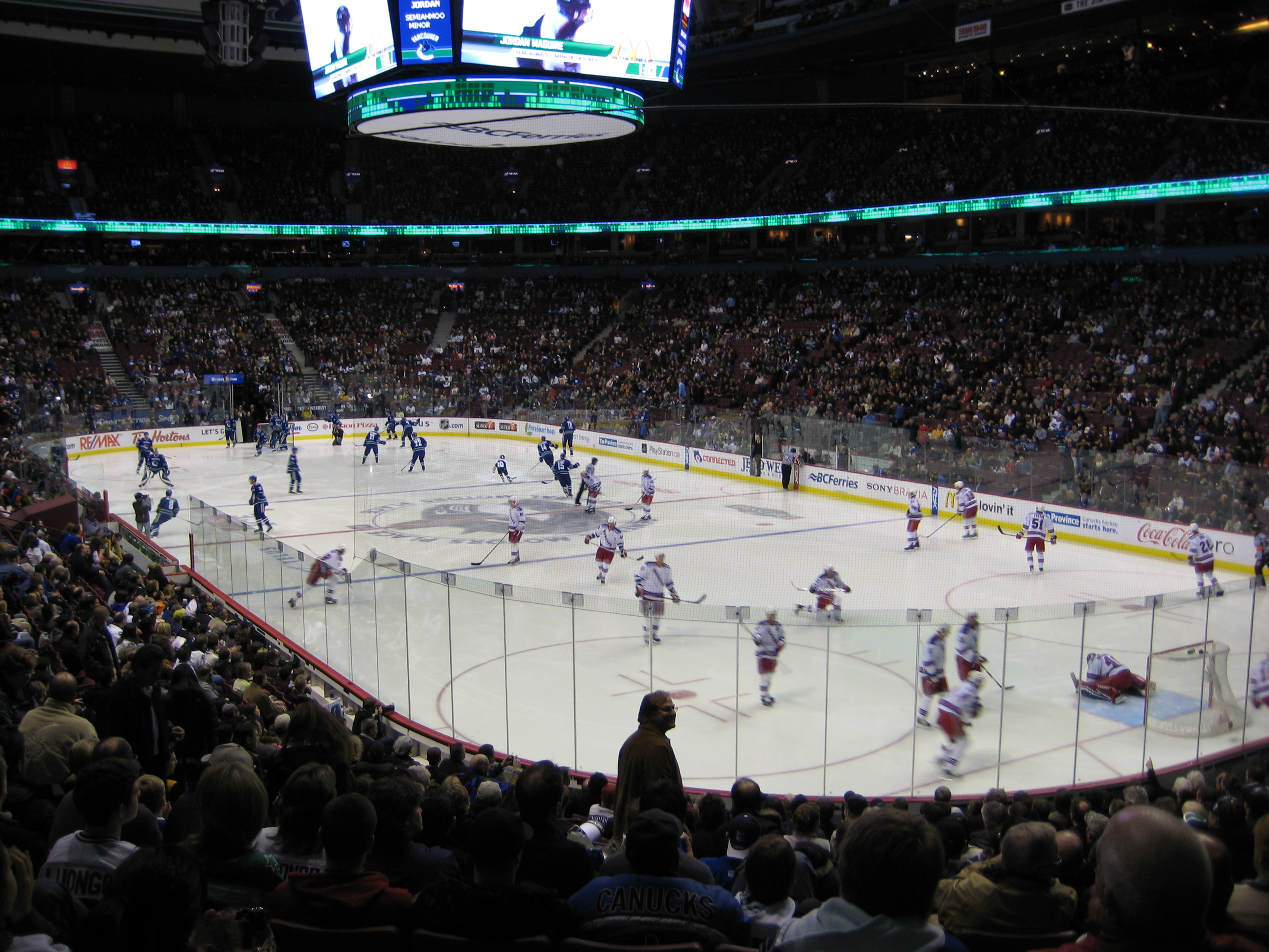 General Motors Place, Vancouver